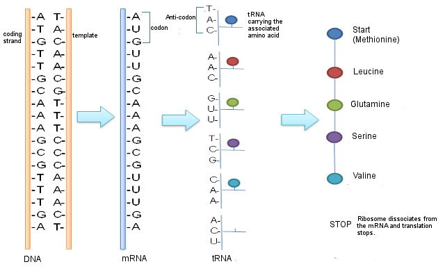 Diagram showing transcription and translation.